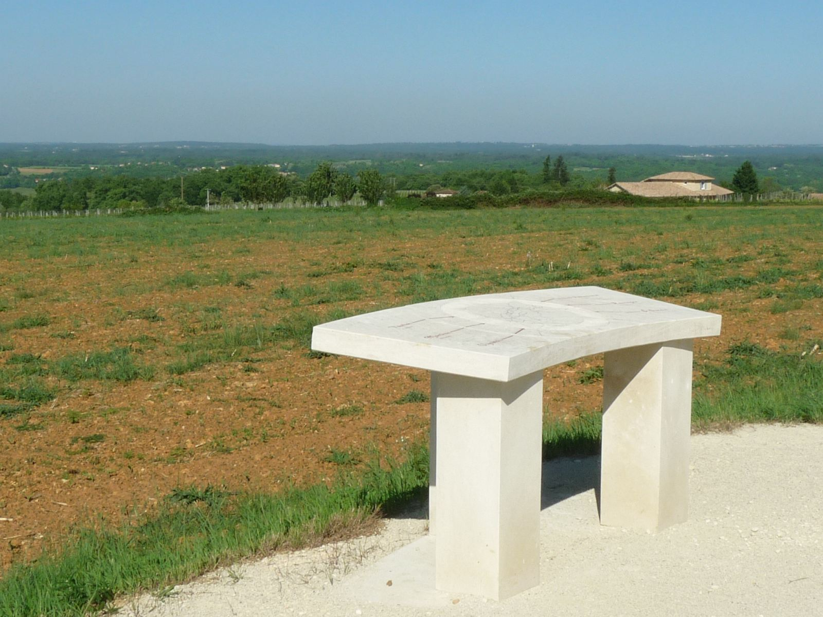 Point of vue at Saint-Sornin, Charente, SW France